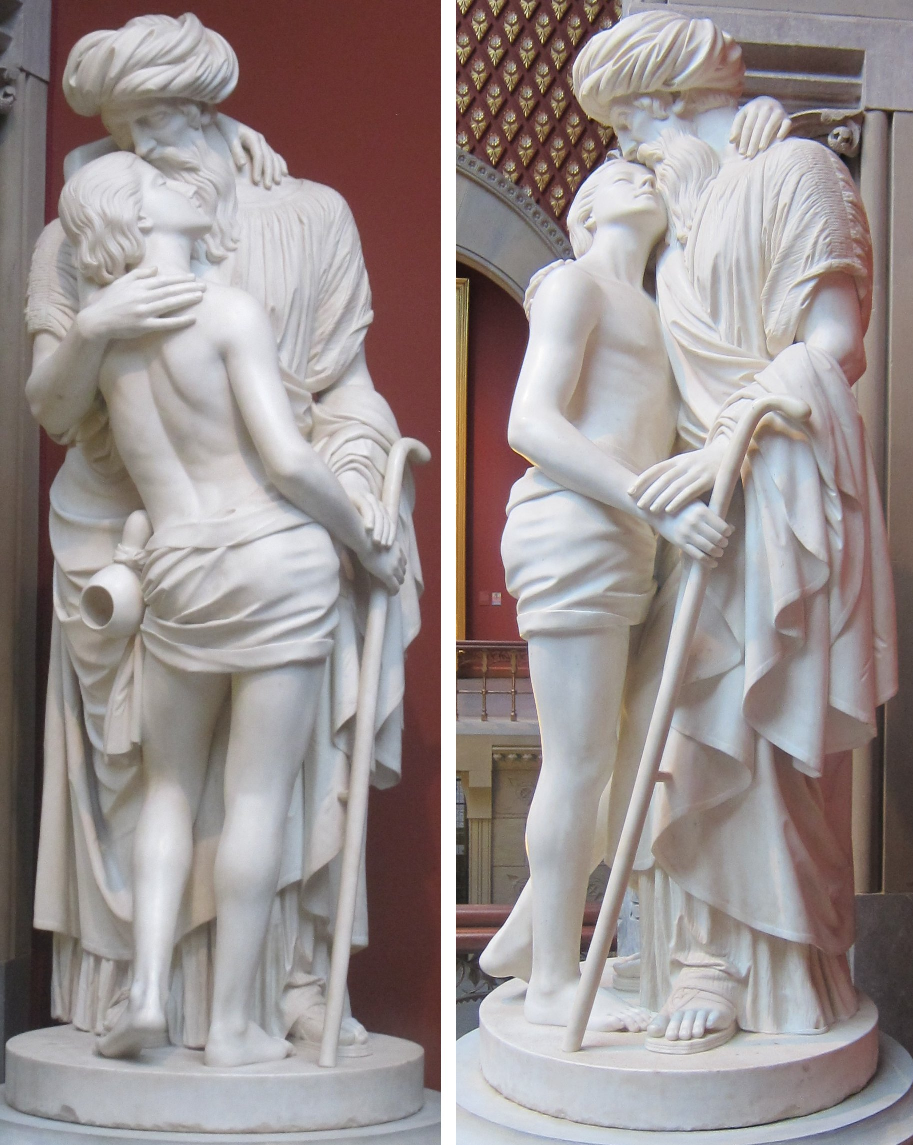 The Prodigal Son, marble sculpture by Joseph Mozier, c. 1857, Pennsylvania Academy of the Fine Arts